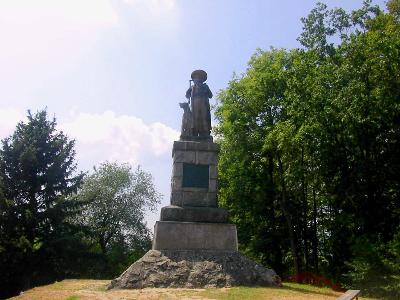 Memorial to Jan Sladký Kozina from 1895 on the Hrádek hill near Újezd, Domažlice District Czech Republic.